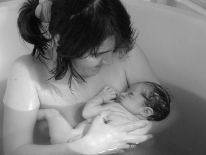 Waterbirth at home